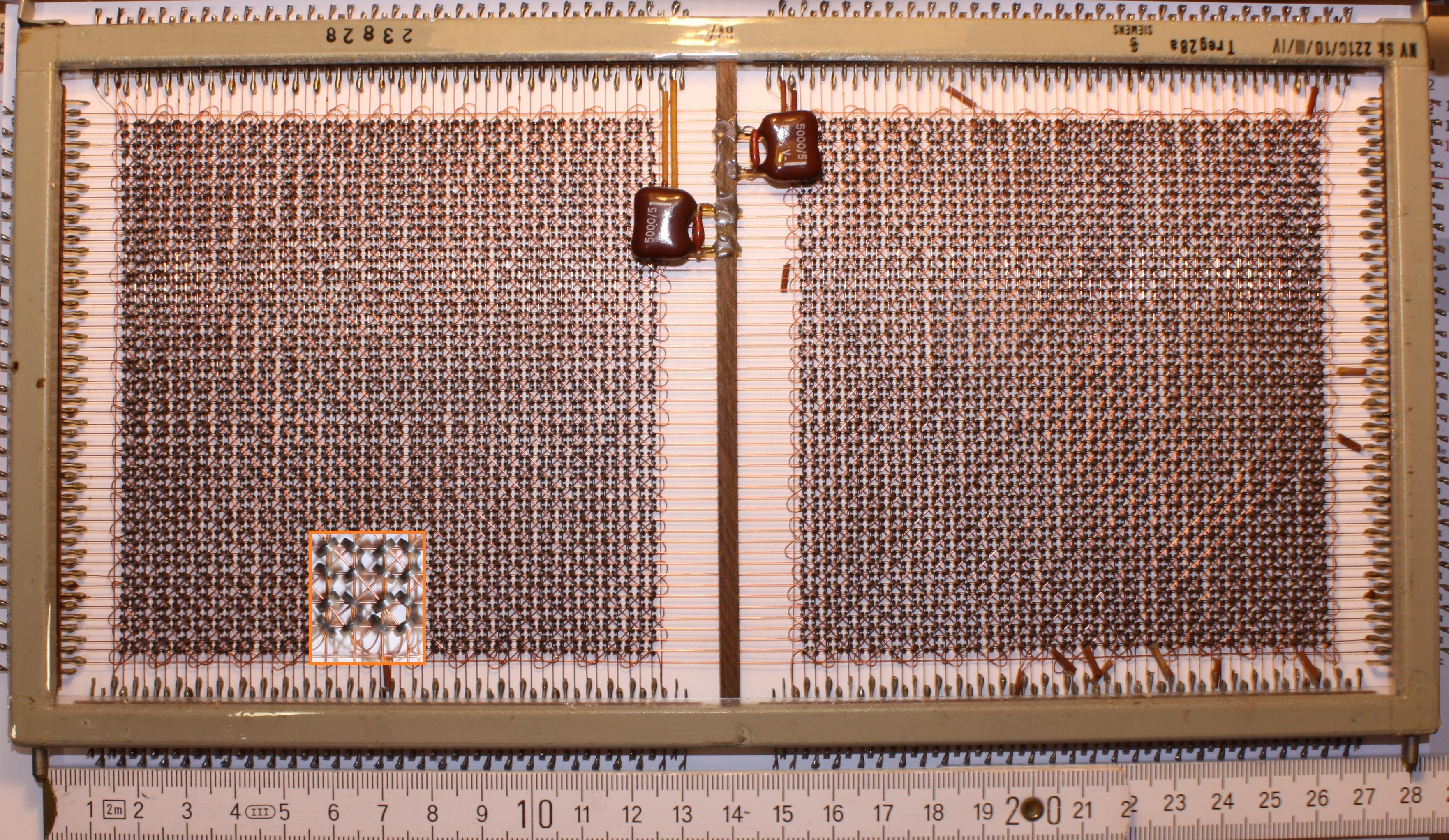 S2002 Magnetic-core memory, double matrix, 20 x 50 = 1000 ferrite rings with a diameter of 3 mm, each storing 1 bit